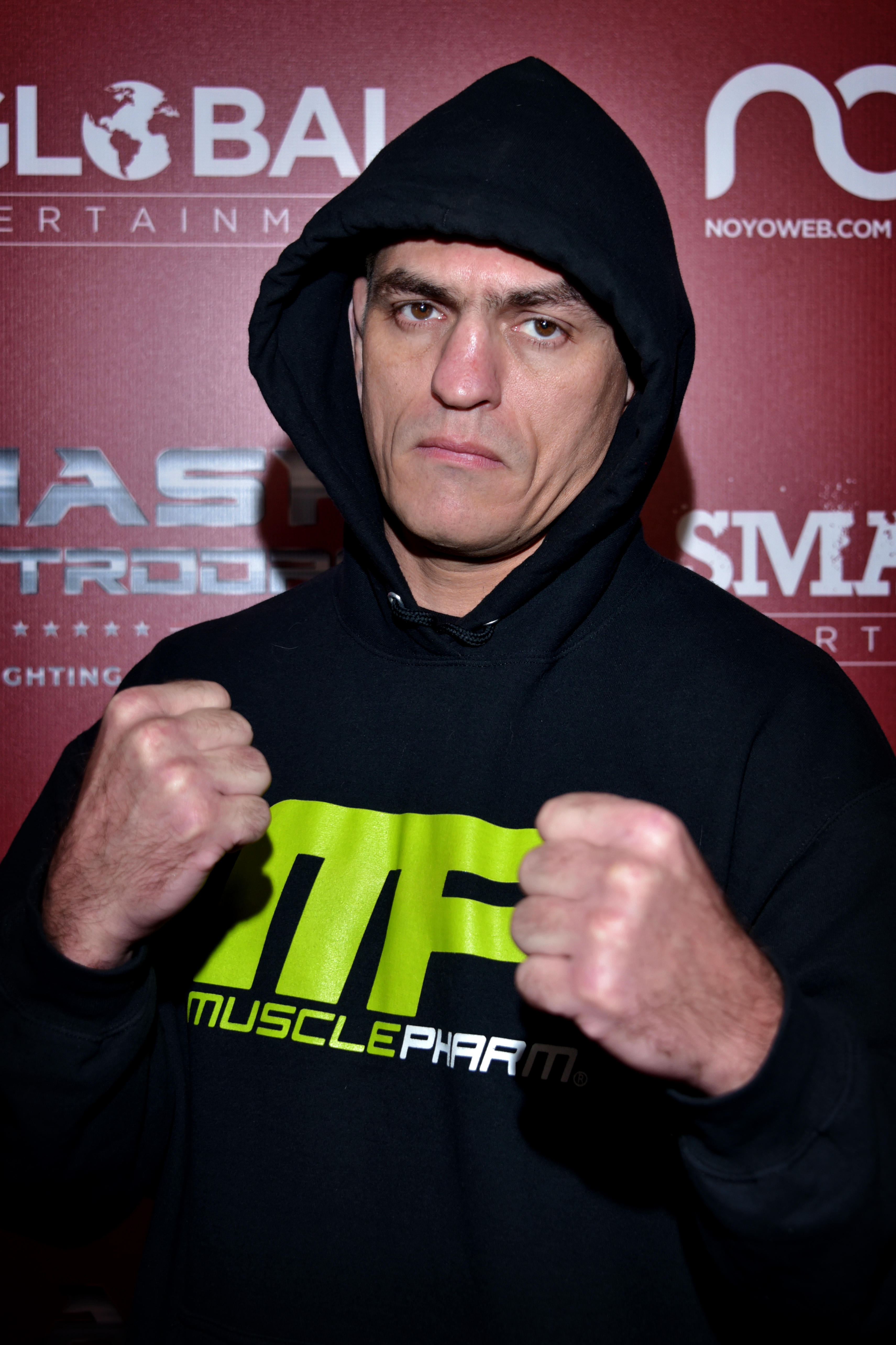 Paulo Thiago Caveira arrives for the SMASH GLOBAL IX Fight Night on December 19, 2019 2019 in Hollywood California. (Photo by Glenn Francis/